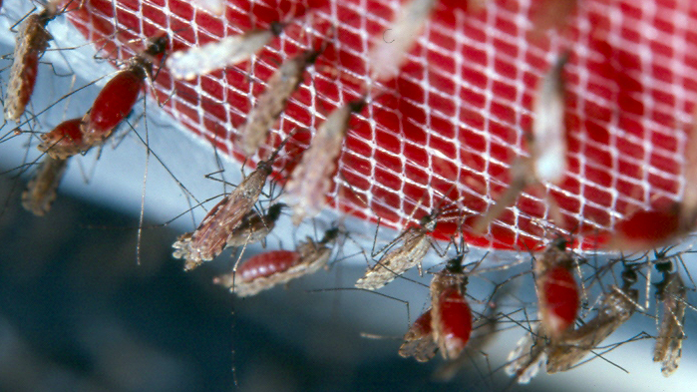 Blood-sucking Anopheles gambiae mosquitoes possess a hypervariable pattern recognition receptor capable of producing thousands of possible alternative splice forms to fight infection.